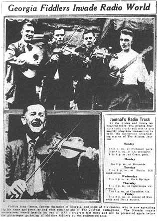 Announcement of scheduled radio broadcasts Fiddlin' John Carson and his cronies Atlanta Journal, September 10, 1922. Pictured at top (left to right) are Bull Brewer, Earl Johnson, Fiddlin' John carson and L.E. Atkins. The picture below shows Fiddlin' John Carson